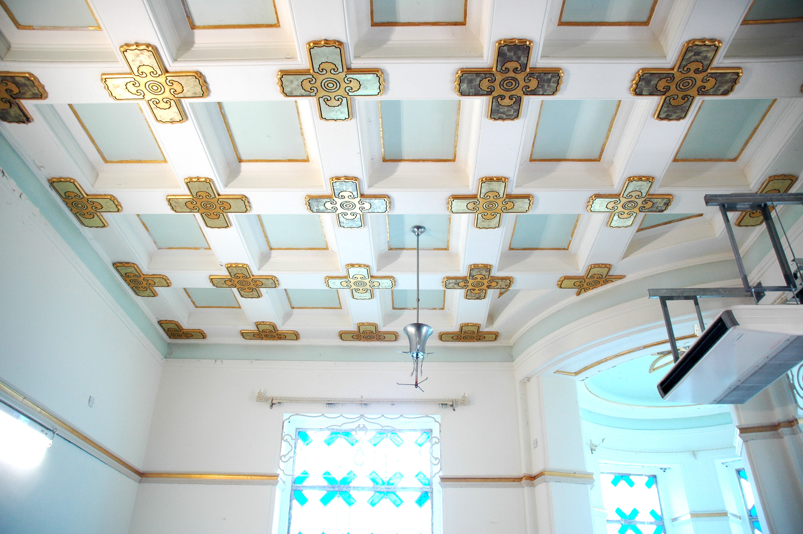 Ceiling of the dinner room in Haw Par Mansion of the Tiger Balm Garden, Hong Kong.